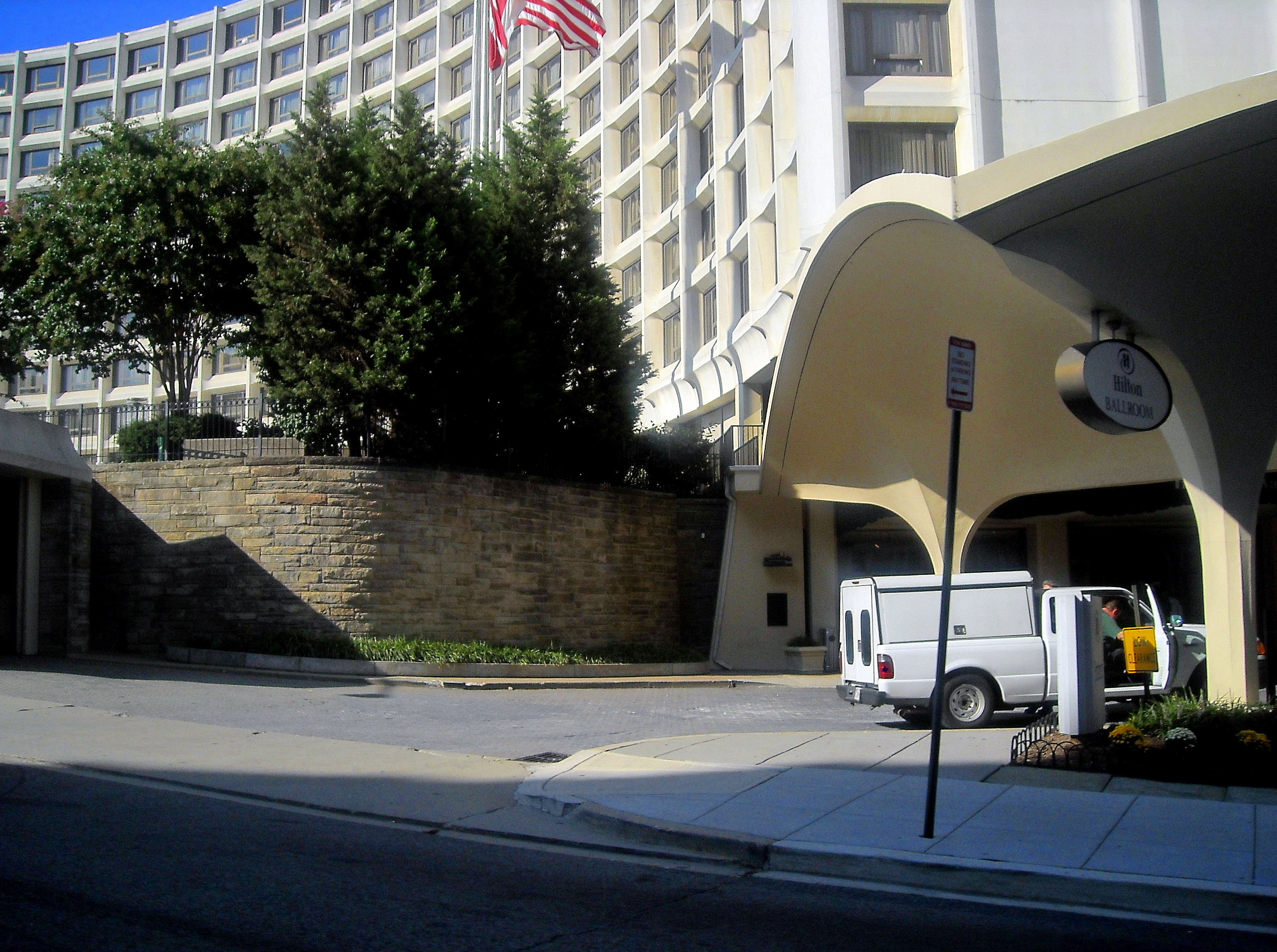 The Hilton Washington's entrance on T Street, NW where the assasination attempt of President Ronald Reagan took place.